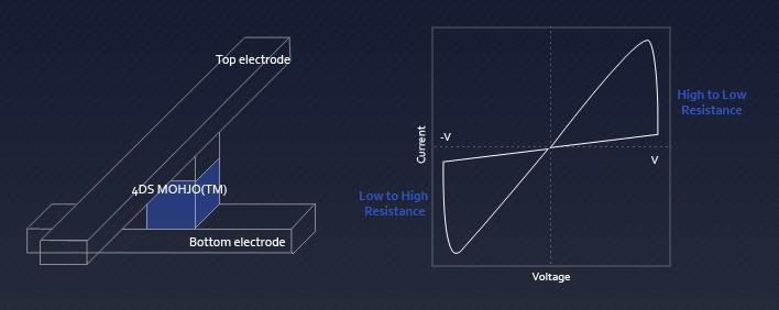 MOHJO (TM) is a key feature in 4DS ReRAM (RRAM)